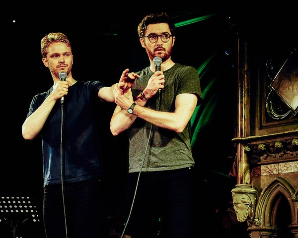 Alex Owen (left) and Ben Ashenden (right)